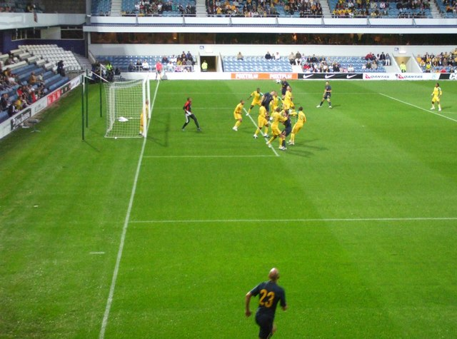 Australia Vs. South Africa II, Loftus Road A corner taken that ended nowhere in the friendly international game between Australia and South Africa played at QPR's Loftus Road ground. It ended 2-2.